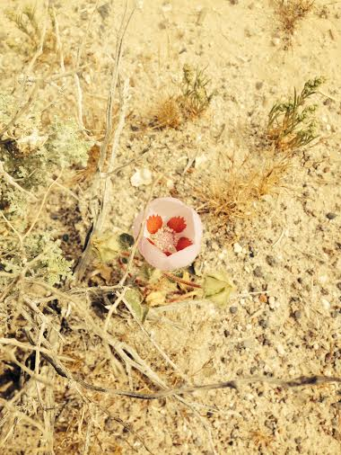 This photo was taken of the death Valley Super Bloom in March 2016. This photo was taken in Tecopa which is just East of DVNP.